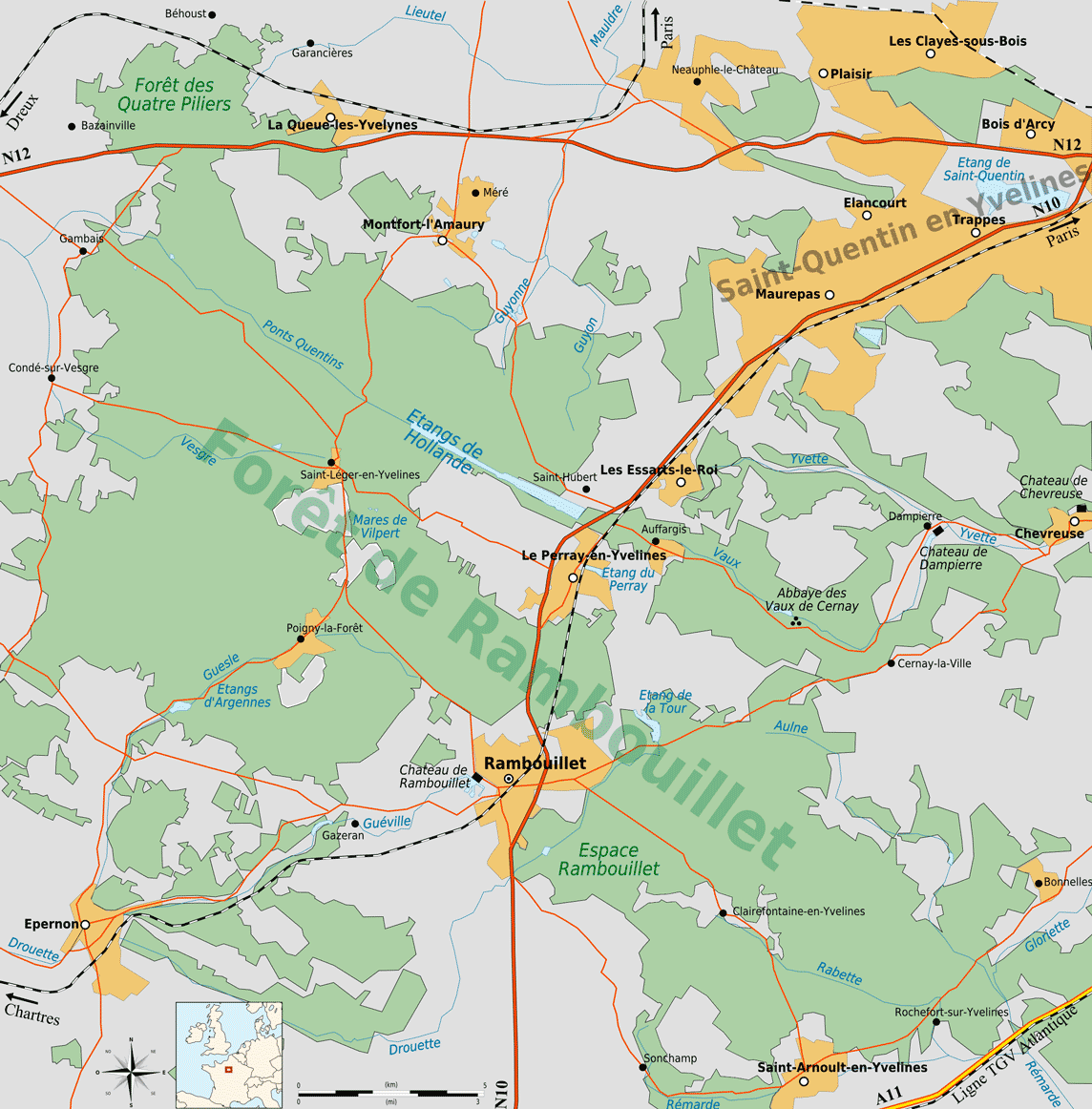 Map of the Foret de Rambouillet and surroundings, Ile de France